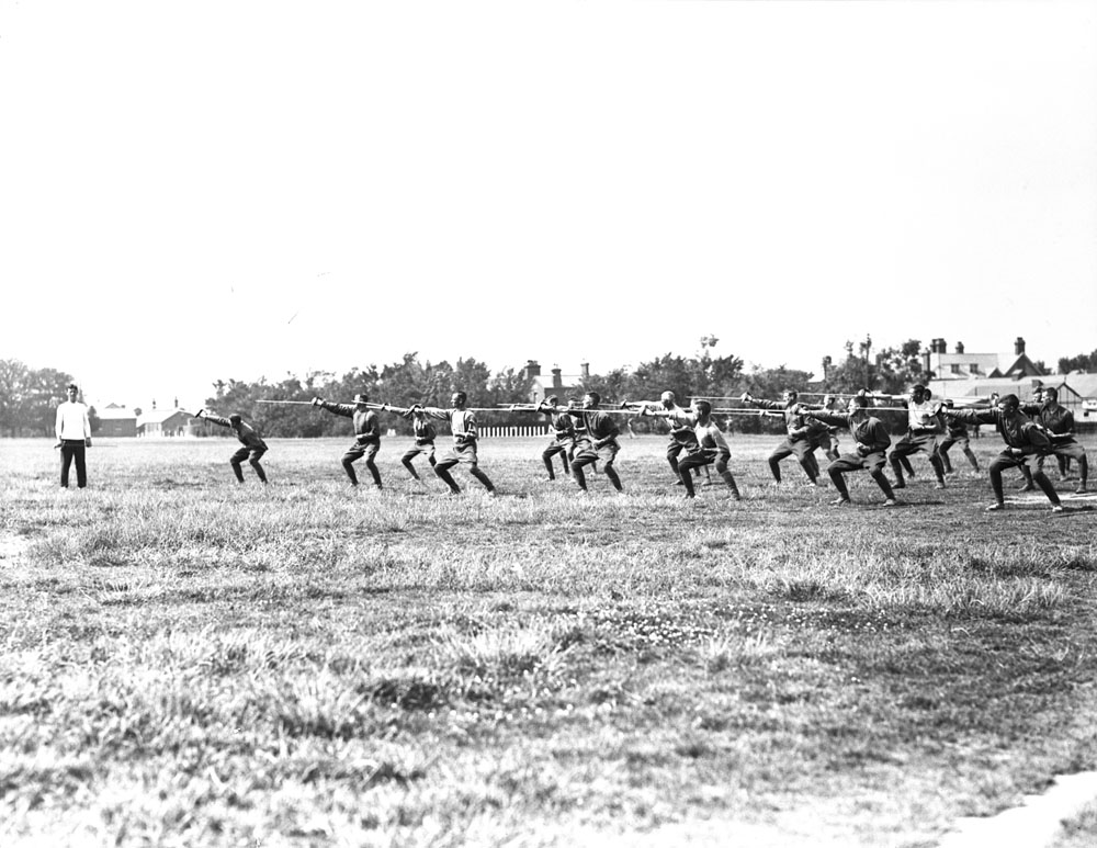 The R.N.W.M.P. Detachment in training at Shorncliffe, August 1918 Credit: Canada. Dept. of National Defence/Library and Archives Canada/ Restrictions on use: Nil Copyright: Expired